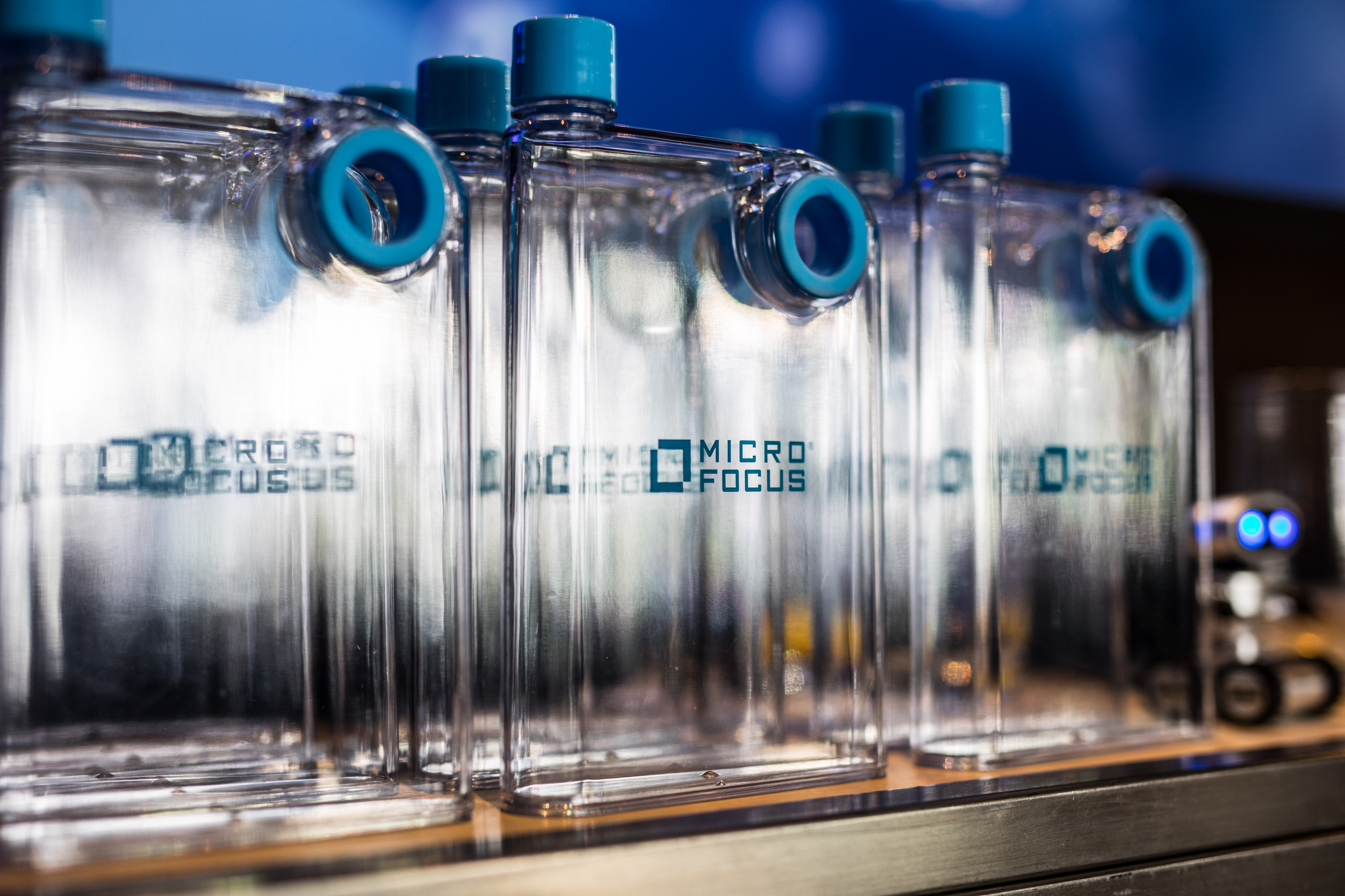 Micro Focus-branded, water bottles-like swag as seen at that company's exhibitor booth at the FutureData 2017 conference in Australia.